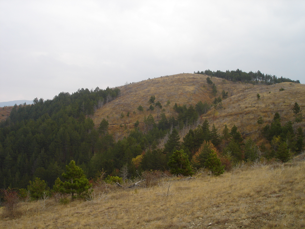 Beyaz Tepe peak on Sredna Mountain, Macedonia